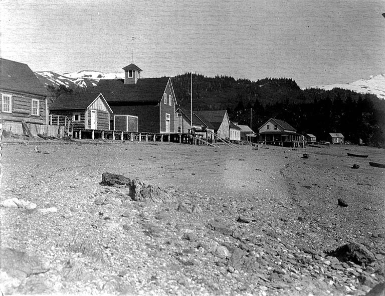 From John Cobb field notebook: Seldovia, Alaska, June 21, 1908 Subjects (LCTGM): Beaches--Alaska--Seldovia Subjects (LCSH): Seldovia (Alaska)